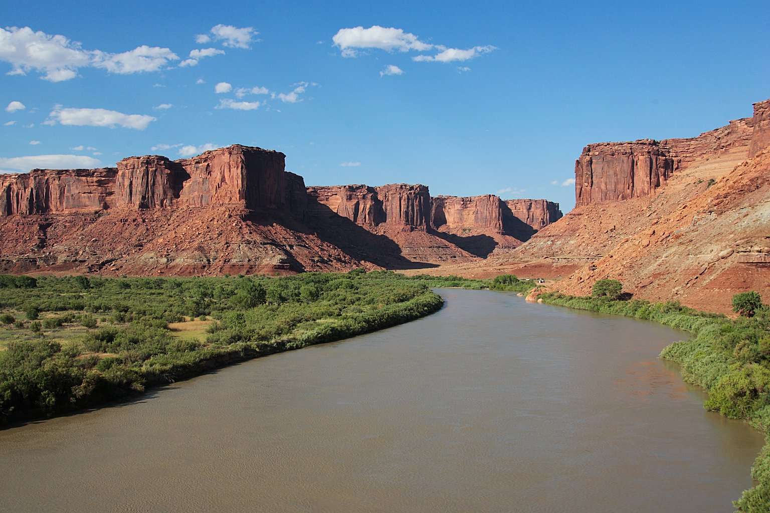 The Green River at Mineral Bottom, a few kilometres north of where the river enters Canyonlands National Park. Just visible, center-right, is the BLM maintained put-in/take-out; the river trip from Green River, Utah to Mineral Bottom (and beyond) is very popular.